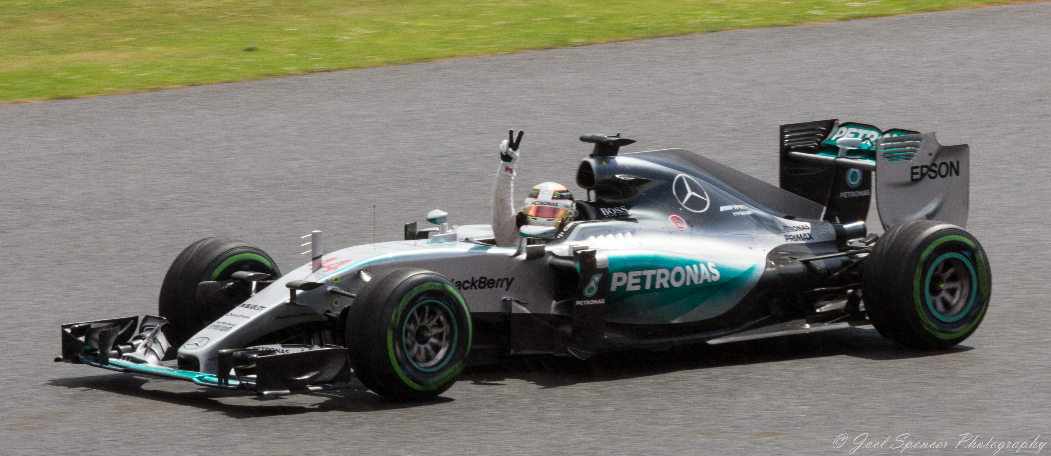 Lewis Hamilton celebrating victory at the 2015 British Grand Prix